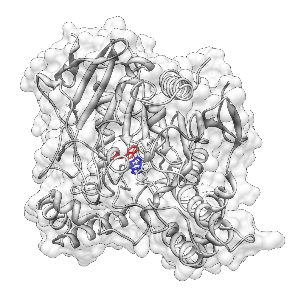 Crystal structure of Tacrine bound to acetylcholinesterase (PDB accession: 1ACJ) visualized using USCF Chimera. A pi stacking interaction between Tacrine (blue) and Trp84 (red) is proposed.